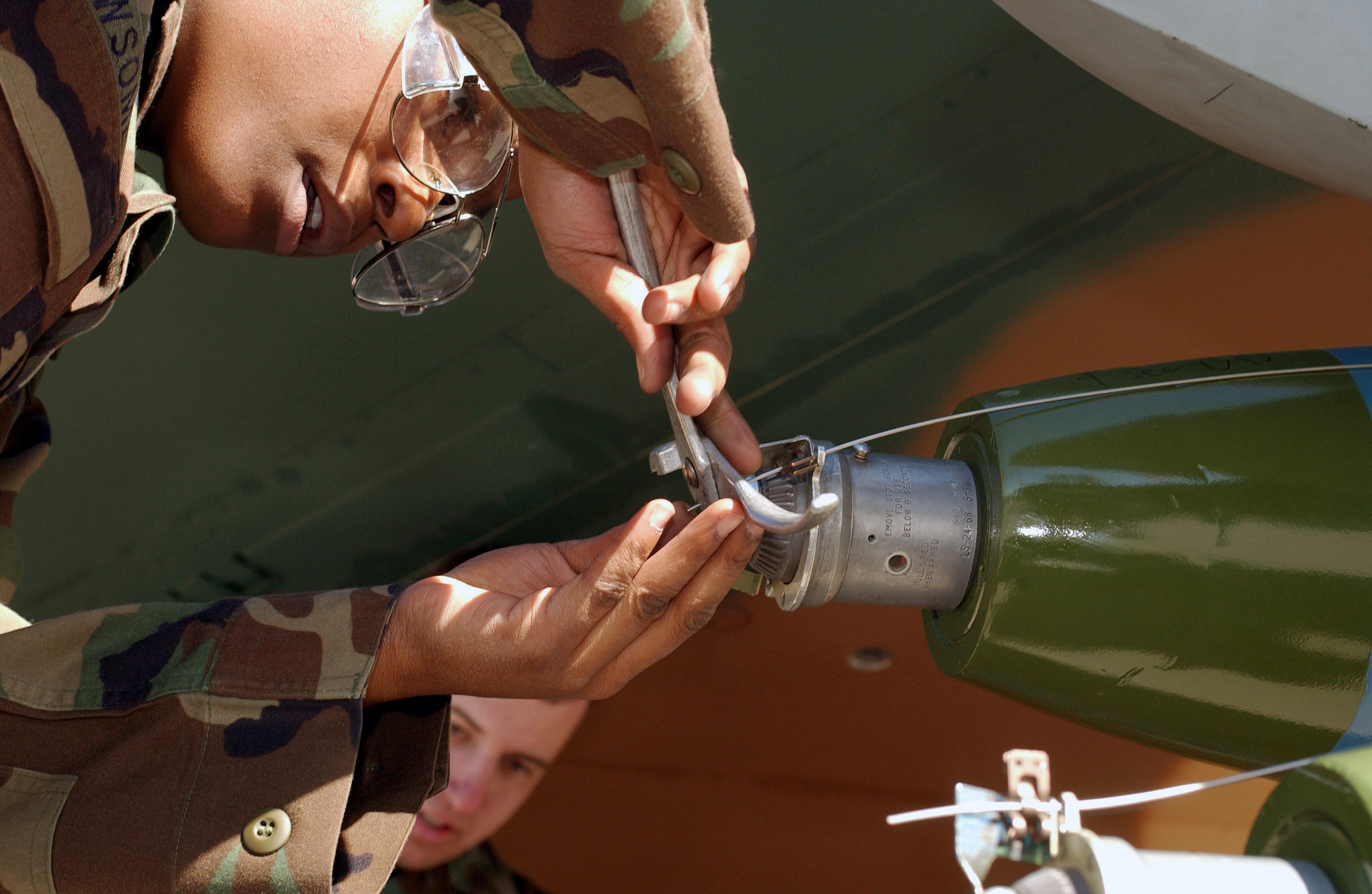 US Air Force (USAF) Airman (AMN) Jene Newsome, 57th Aircraft Generation Squadron, trims the safety wire on an AGM-65 Maverick missile during a weapons load crew competition at Nellis AFB, Nevada (NV).